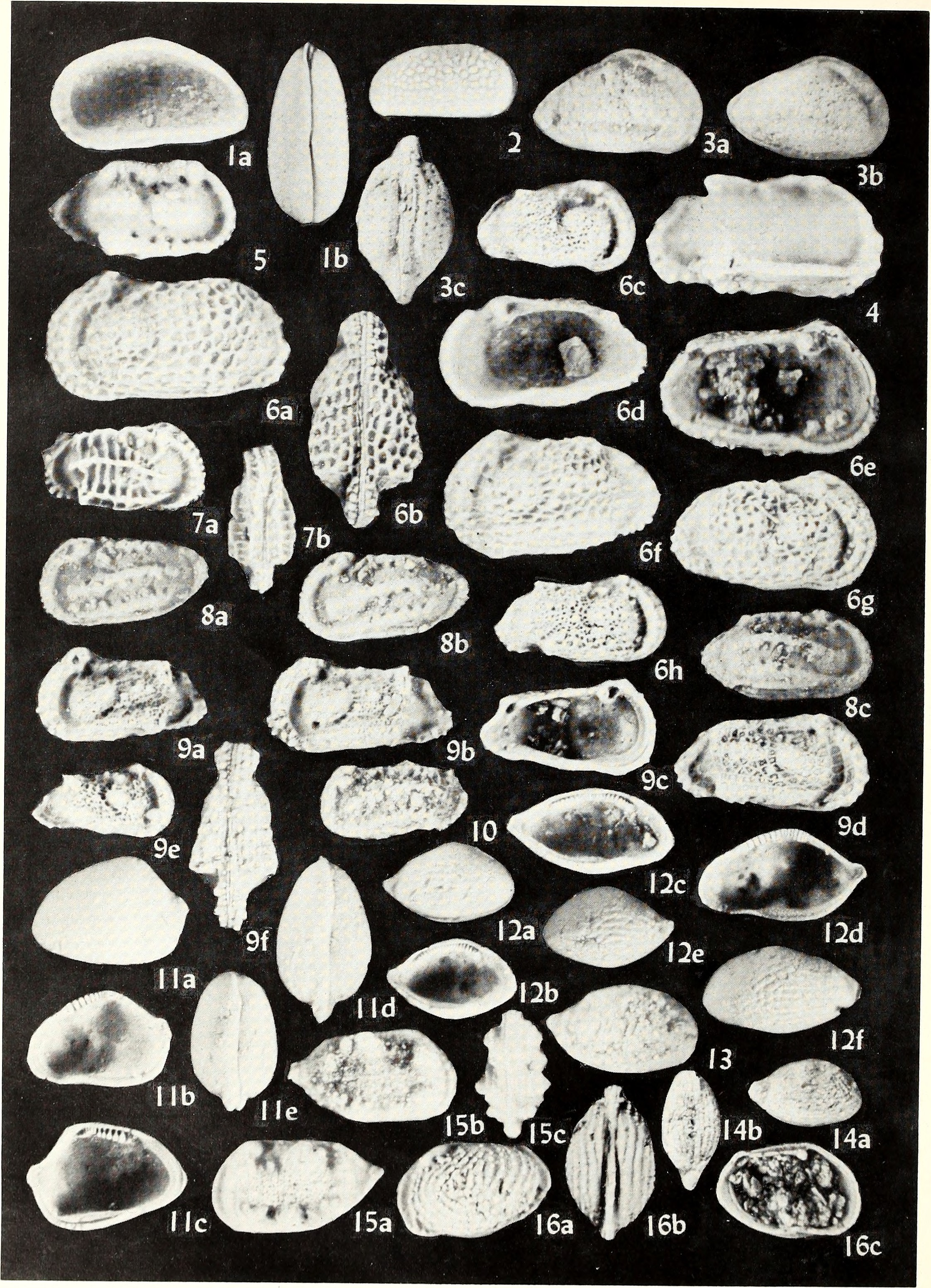 Title: Cretaceous Ostracoda from wells in the southeastern United States Year: 1964 (1960s) Authors: Swain, Frederick M. (Frederick Morrill), 1916-2008; Brown, Philip M. (Philip Monroe), 1922-; Geological Survey (U. S. ) Subjects: Ostracoda, Fossil; Paleontology; Paleontology Publisher: (Raleigh, N. C. ) : U. S. Geological Survey Text Appearing Before Image: ' Text Appearing After Image: '